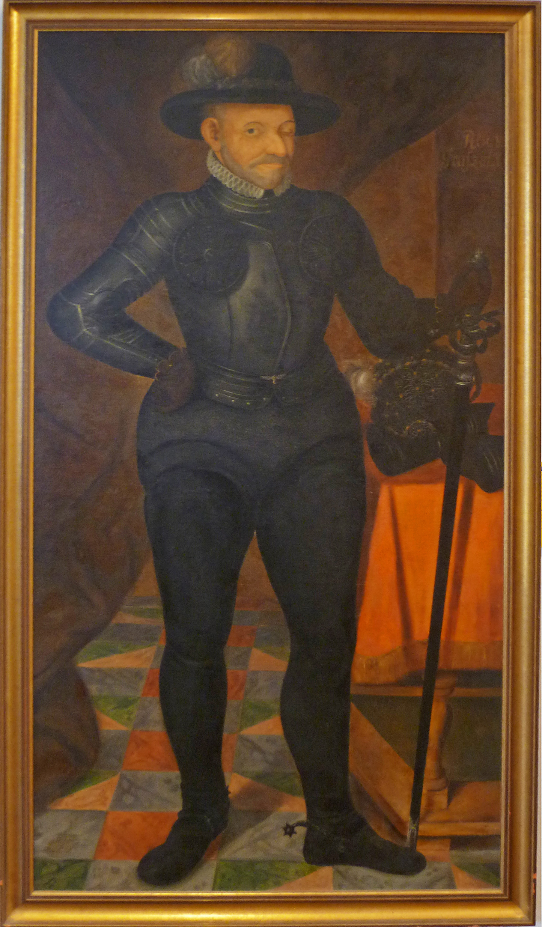 Portrait of Count Rochus zu Lynar, a 16th century Italian architect of the Spandau Citadel; painting by an anonymous master; exhibition in the Spandau Citadel, Spadau, Germany